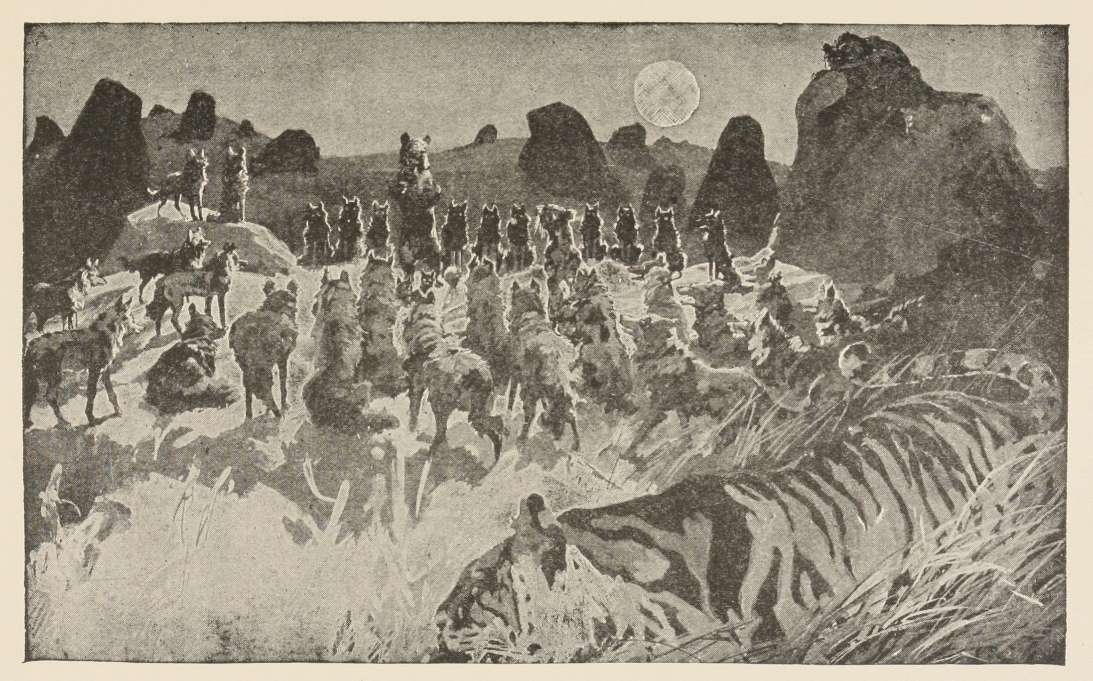 "The meeting at the Council Rock."